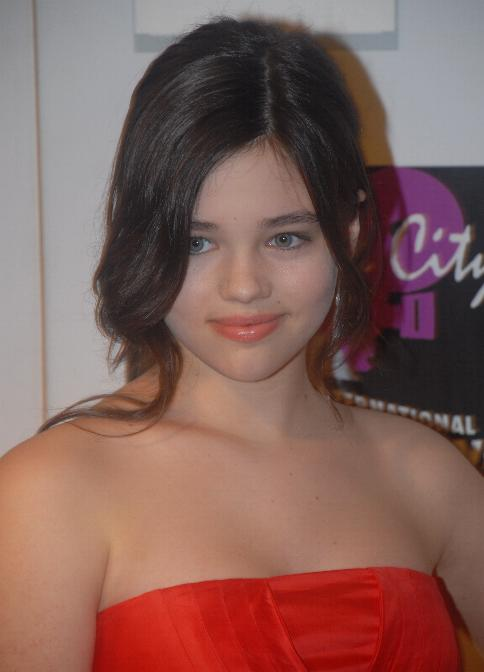 March 09, 2008: Cinema City Film Festival